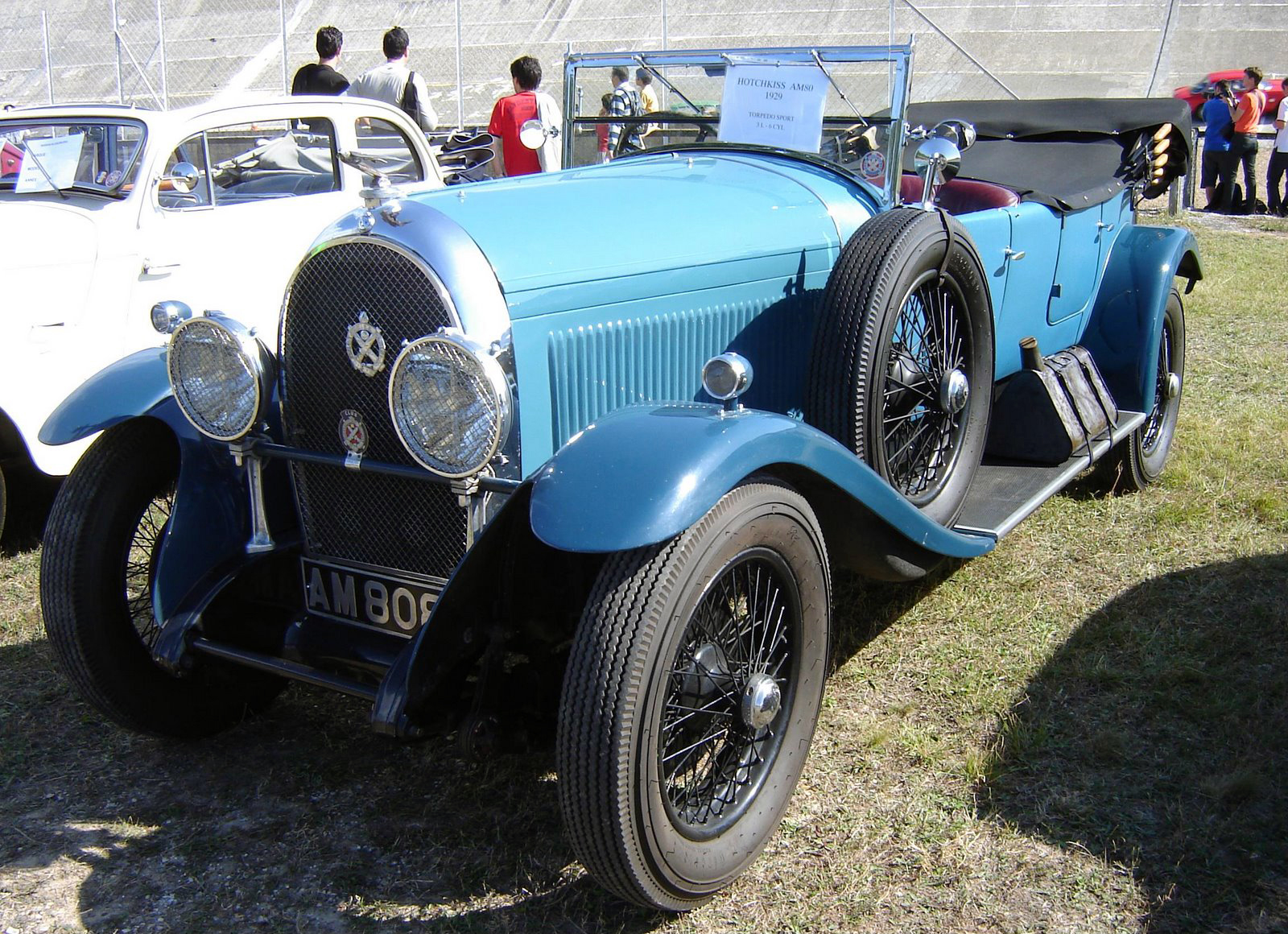 1929 Hotchkiss AM80 Torpedo Sport (3 litres, six cylinders) at the Autodrome de Linas-Montlhéry, 2009.